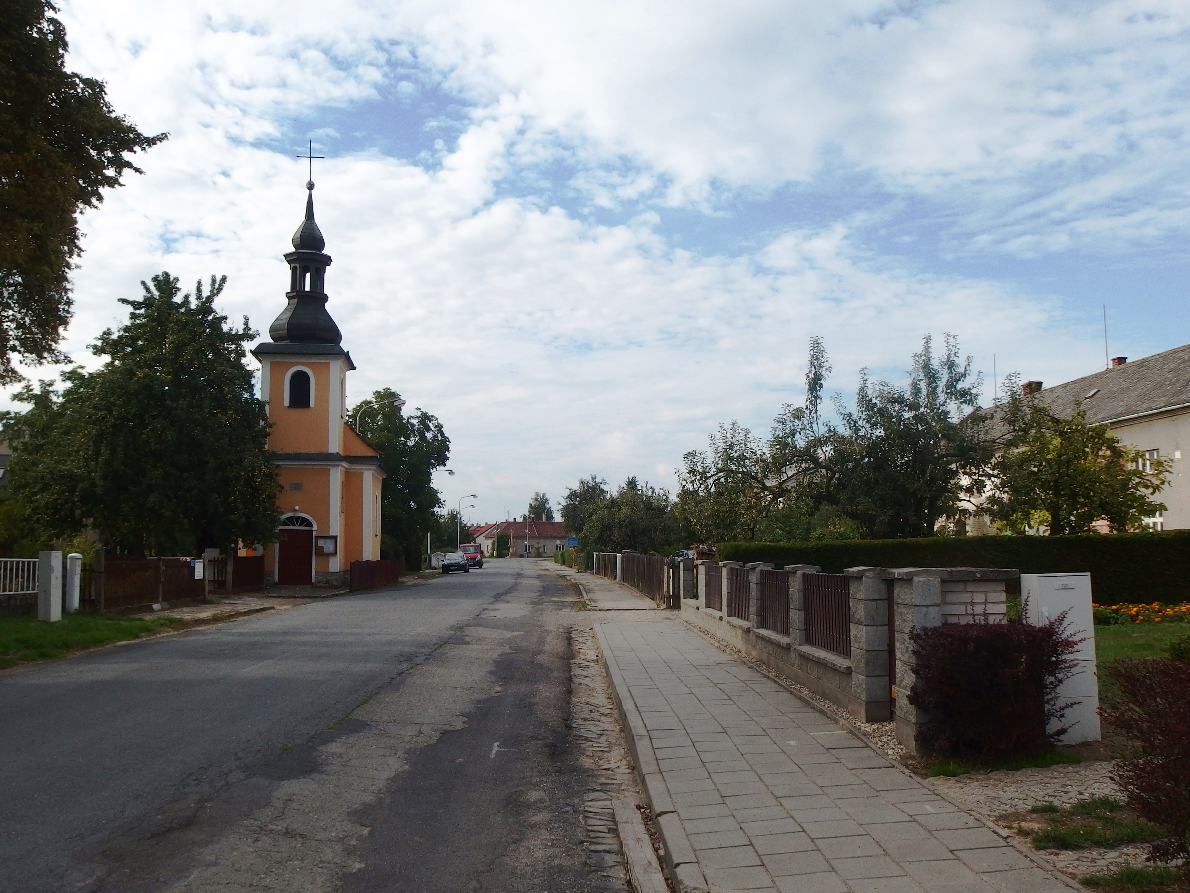 Štěpánov, Olomouc District, Czech Republic, part Březce.